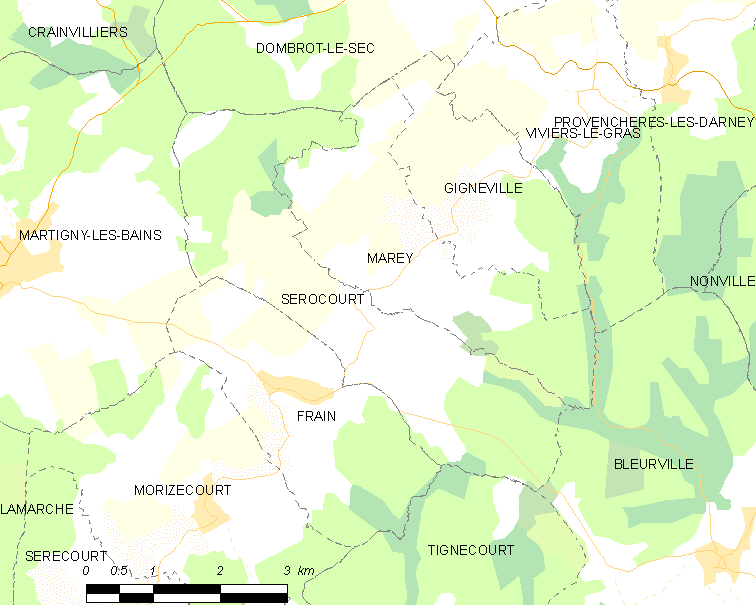 Map of French municipality Serocourt